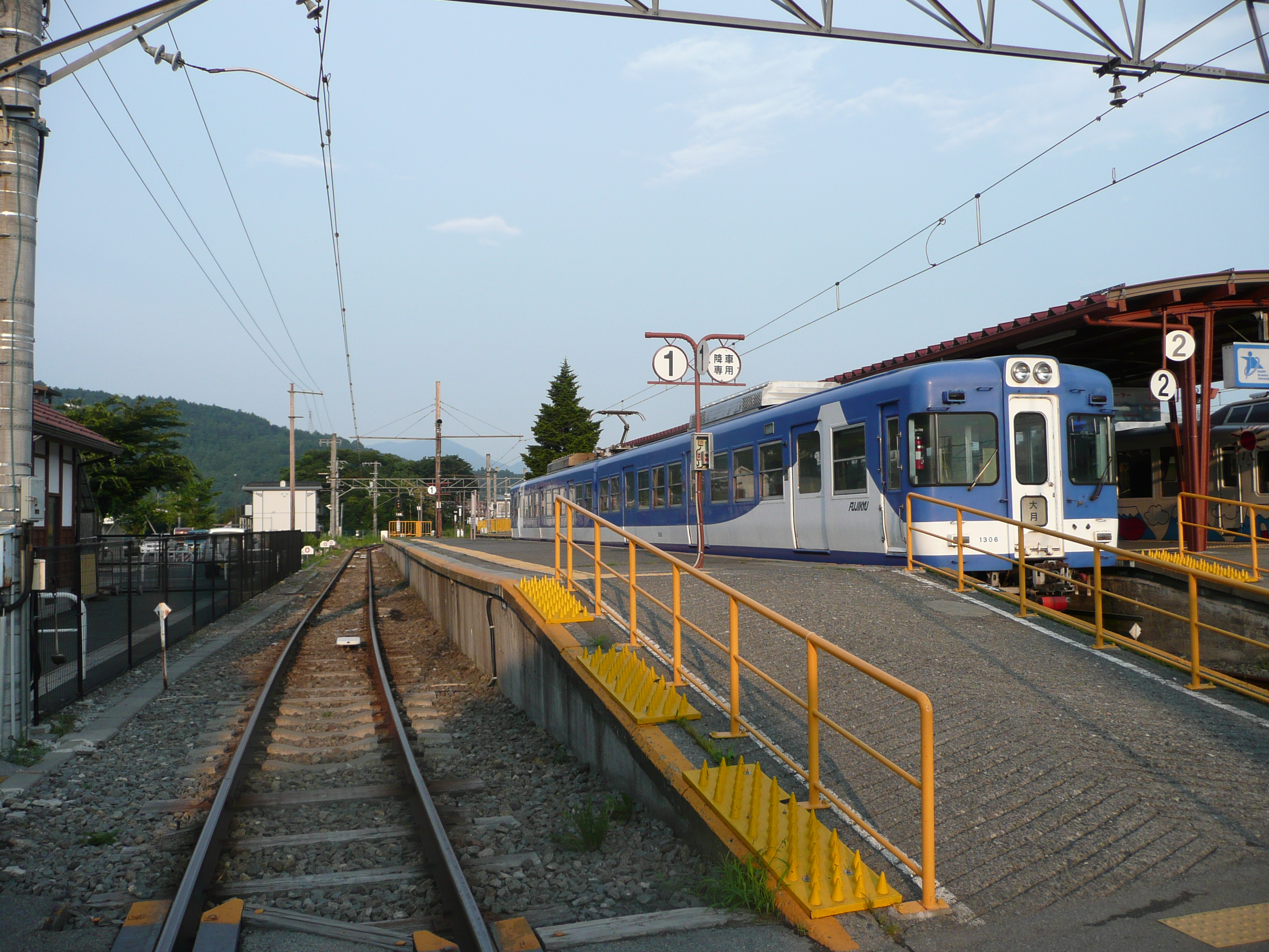 Kawaguchiko Station platform 1